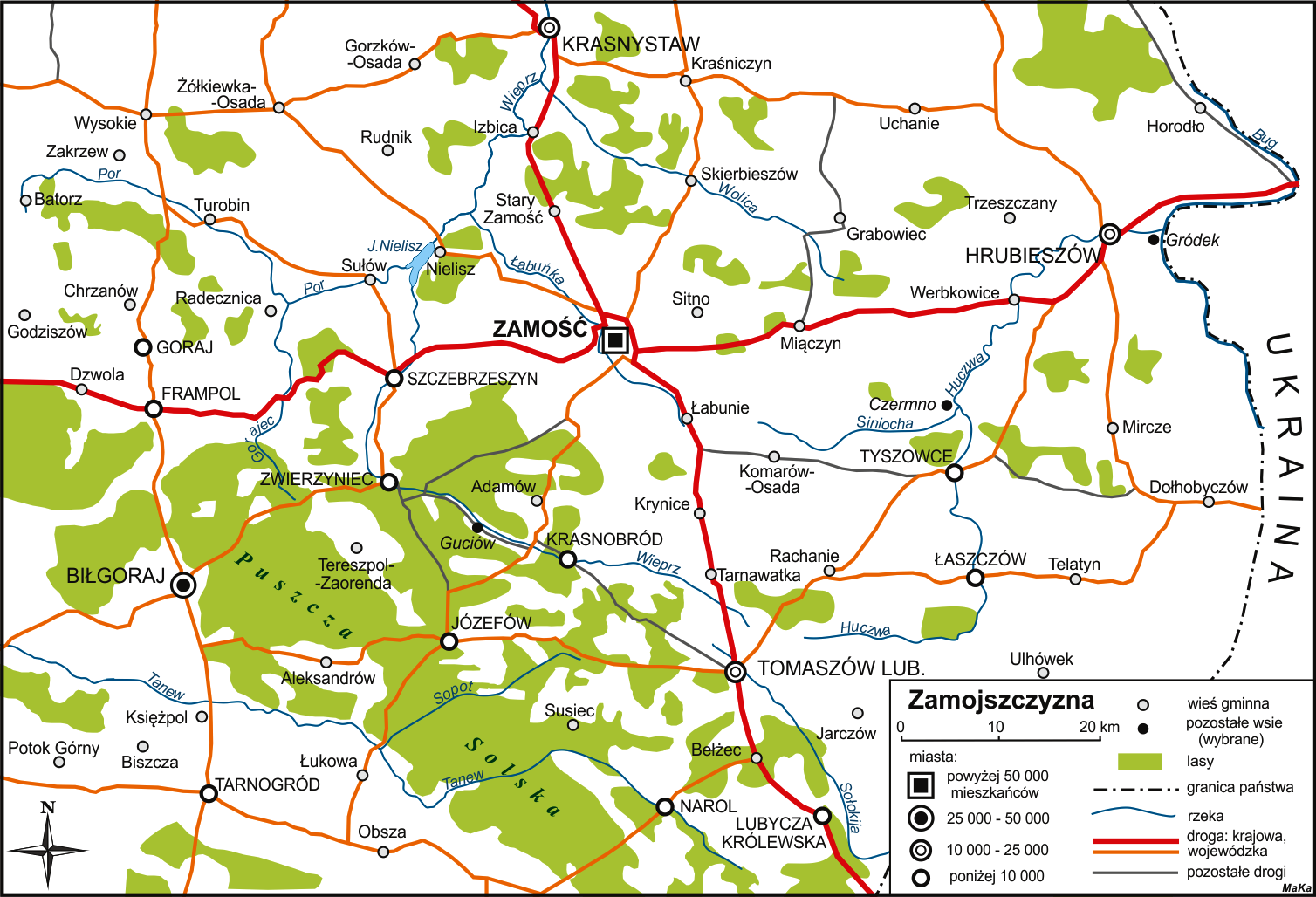 Map of Zamojszczyzna region in Poland (Lublin Voivodeship)